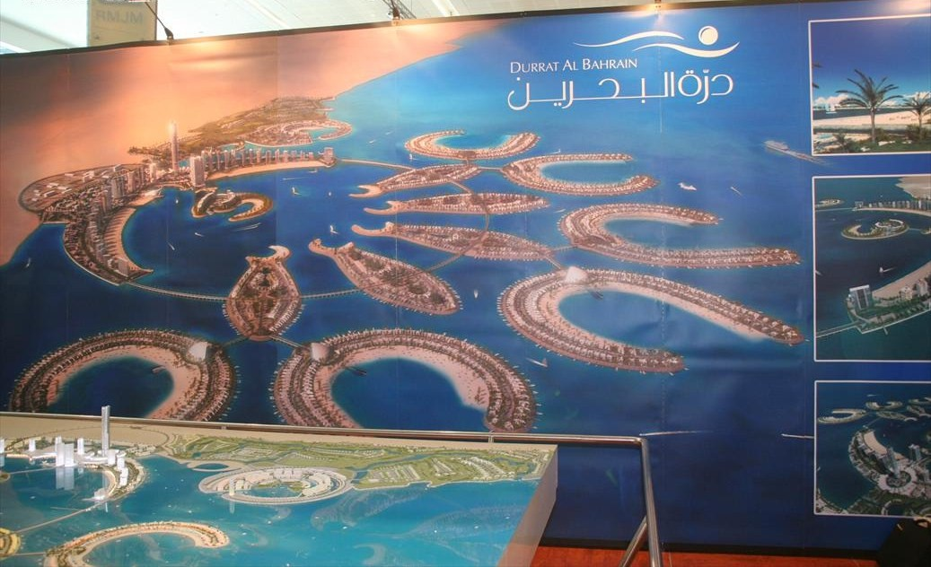 This is a photo showing a model of Durrat Al Bahrain in Bahrain on 8 May 2007. The model was at the Cityscape Abu Dhabi 2007.